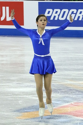 Yuliya Lipnitsкaya at the Sкate America 2015